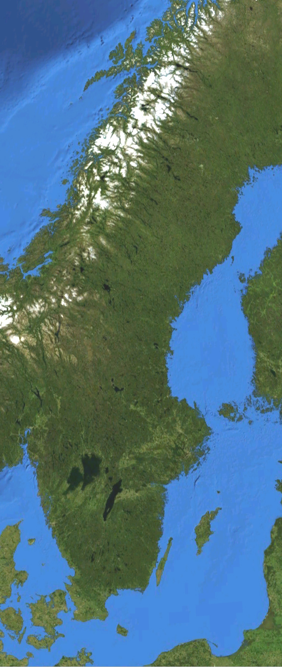 Satellite map of Sweden. Land terrain and ocean topography.